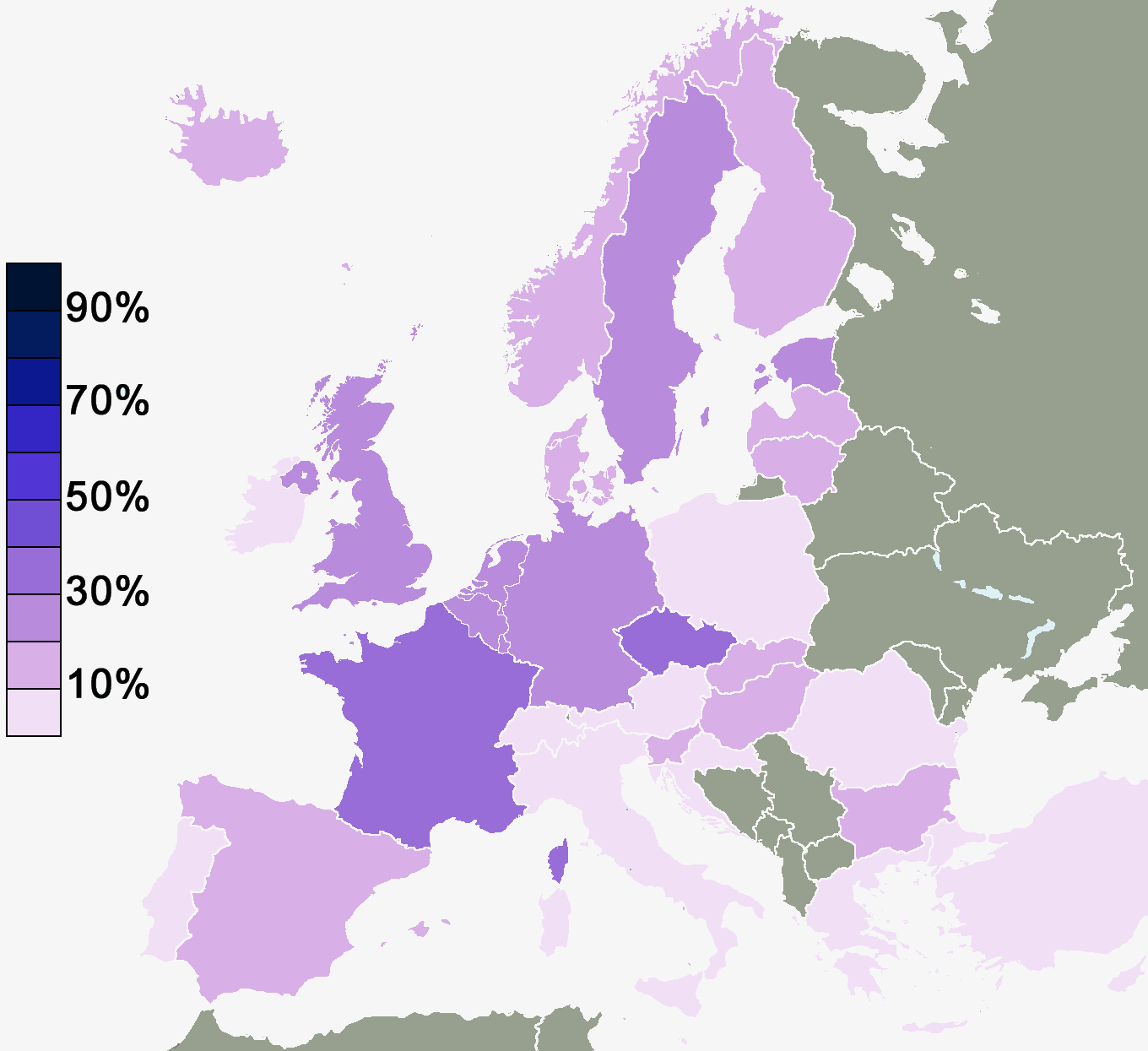 Eurobarometer Poll 2005 Percentage of those who agreed to the statement that "there isn't any sort of God, spirit, or life force". Colour enhanced from the original: contrast -0.5; gamma 0.7.